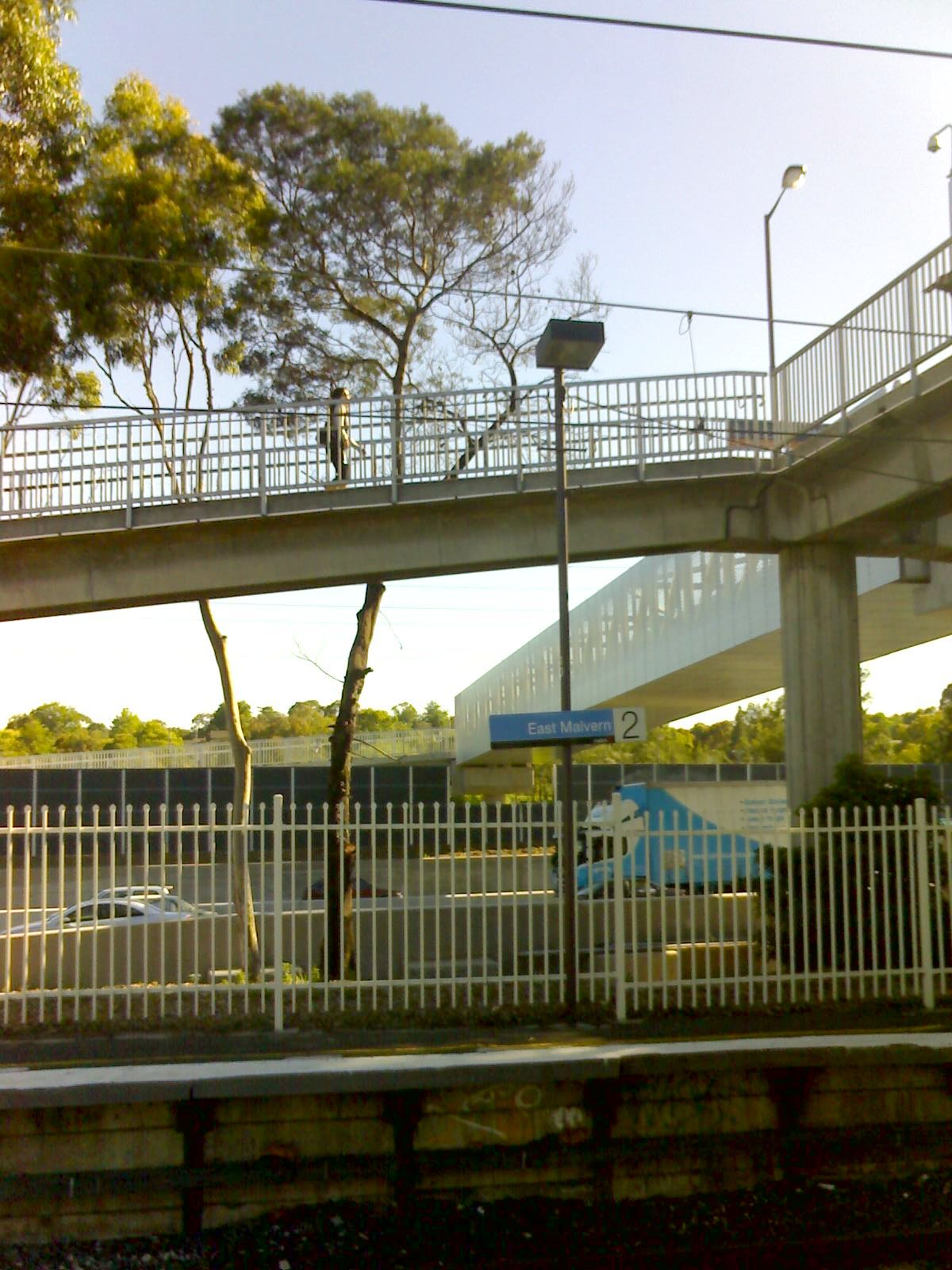 East Malvern Station in Victoria, Australia. Monash Freeway visible.